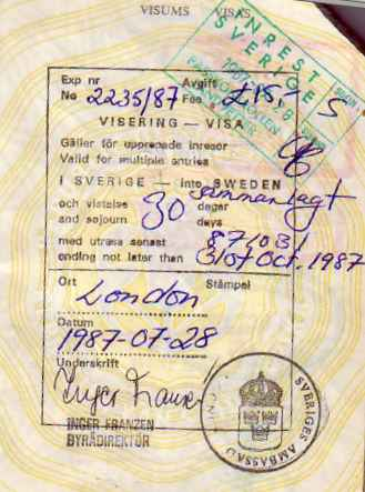 Entry visa Sweden